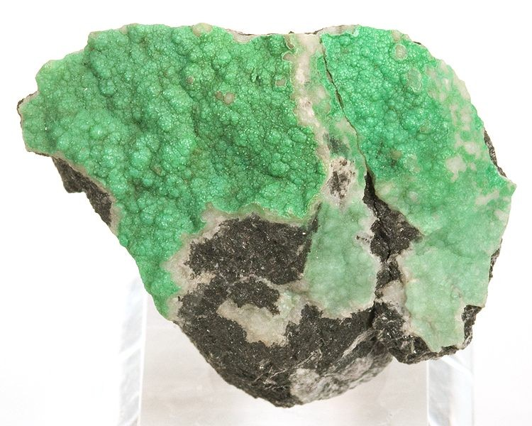 Antigorite Locality: Wood's Chrome Mine (Wood's Mine), Texas, Little Britain Township, Lancaster County, Pennsylvania, USA (Locality at ) Size: 4.6 x 3.9 x 1.9 cm. Genthite is an old synonym for antigorite. The bright green, lustrous antigorite richly covering this specimen has an unusual knobby/bubbly/drusy form.